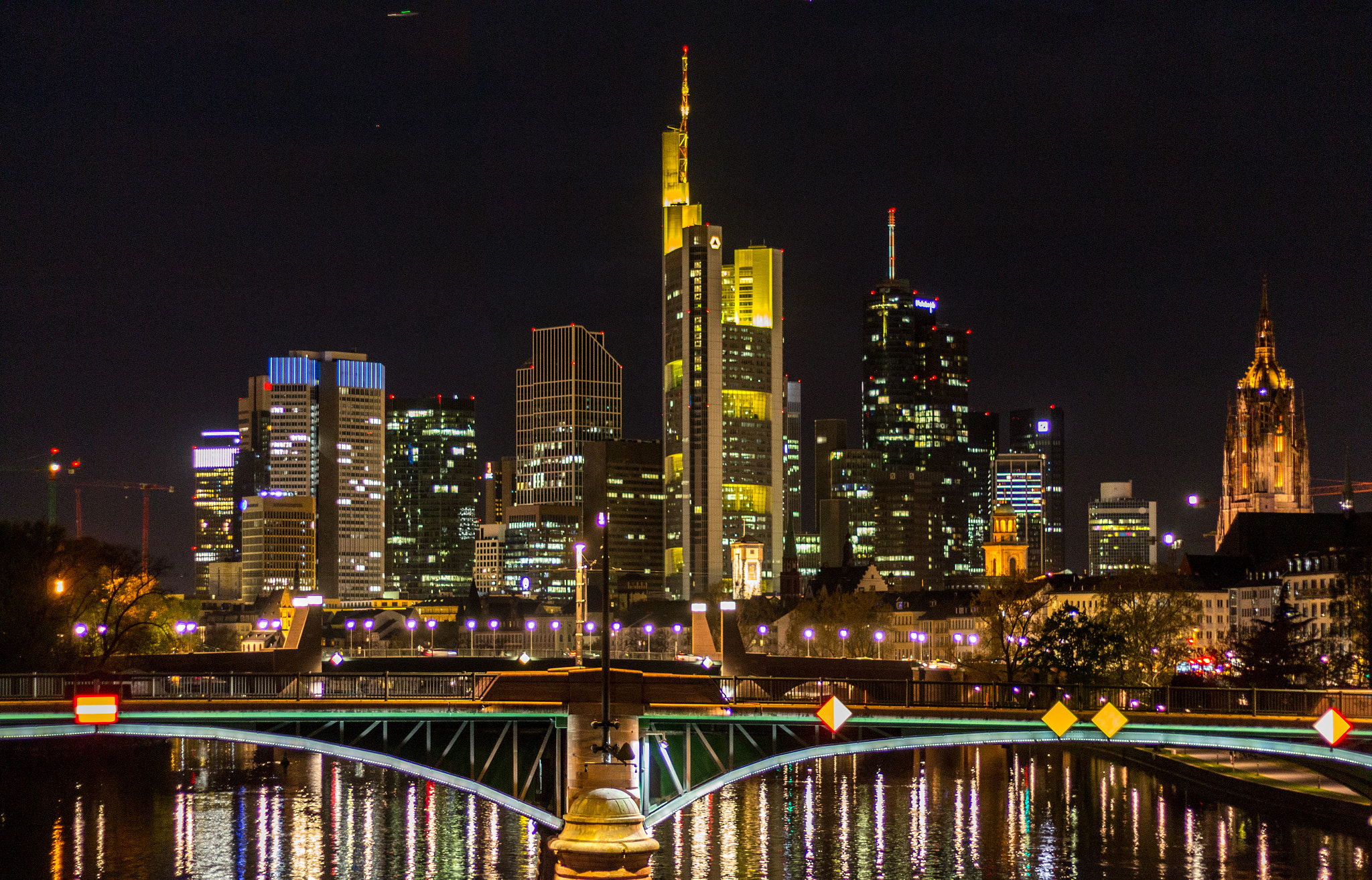 500px provided description: Frankfurt Am Main [#sky ,#city ,#sea ,#sunset ,#street ,#water ,#reflection ,#river ,#travel ,#blue ,#night ,#sun ,#light ,#clouds ,#architecture ,#lights ,#bridge ,#moon ,#germany ,#berlin ,#cloud ,#bridges ,#frankfurt ,#deutschland ,#frankfurt am main ,#hesse]